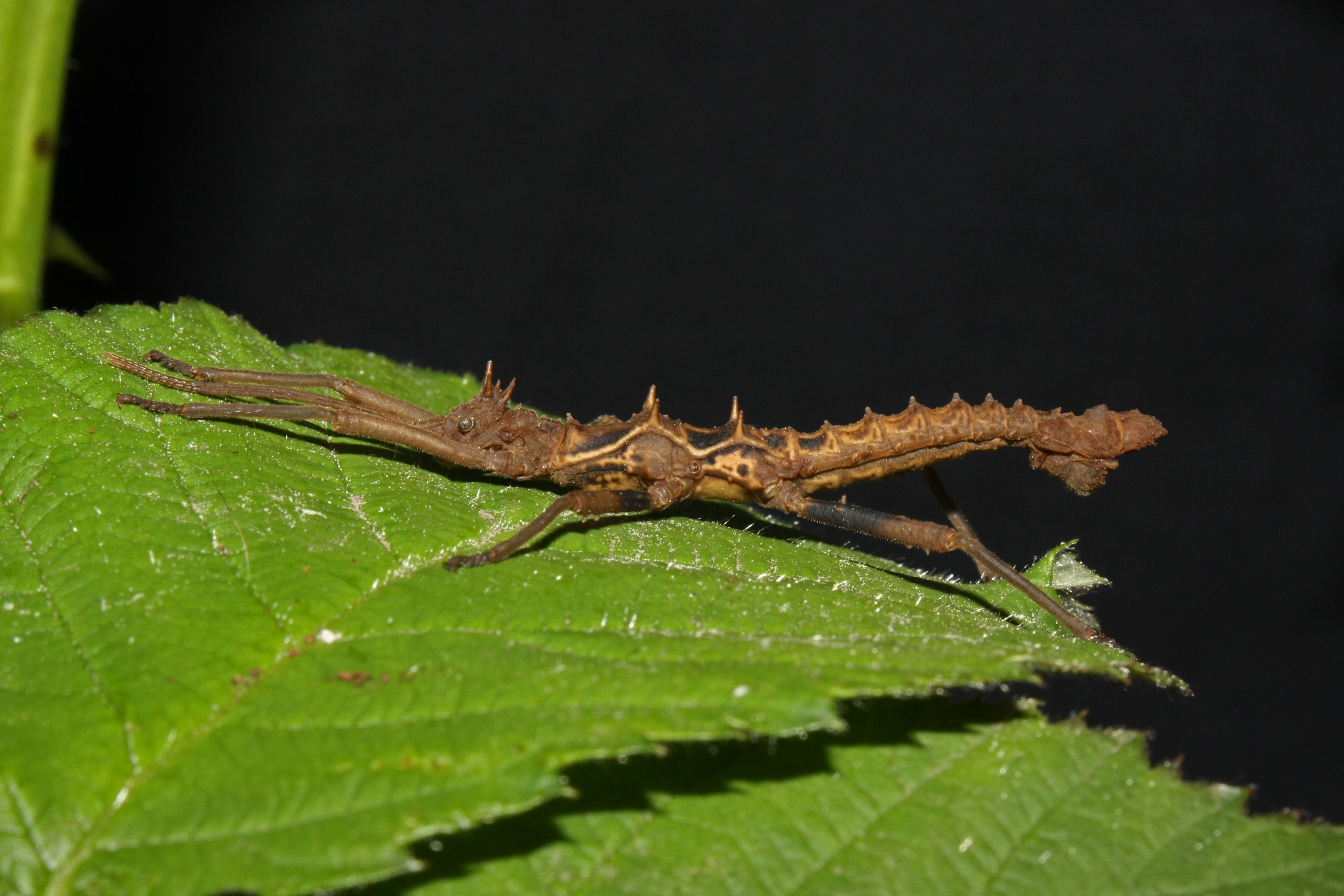 male of Spiny Sabah Stick Insect (Dares verrucosus)